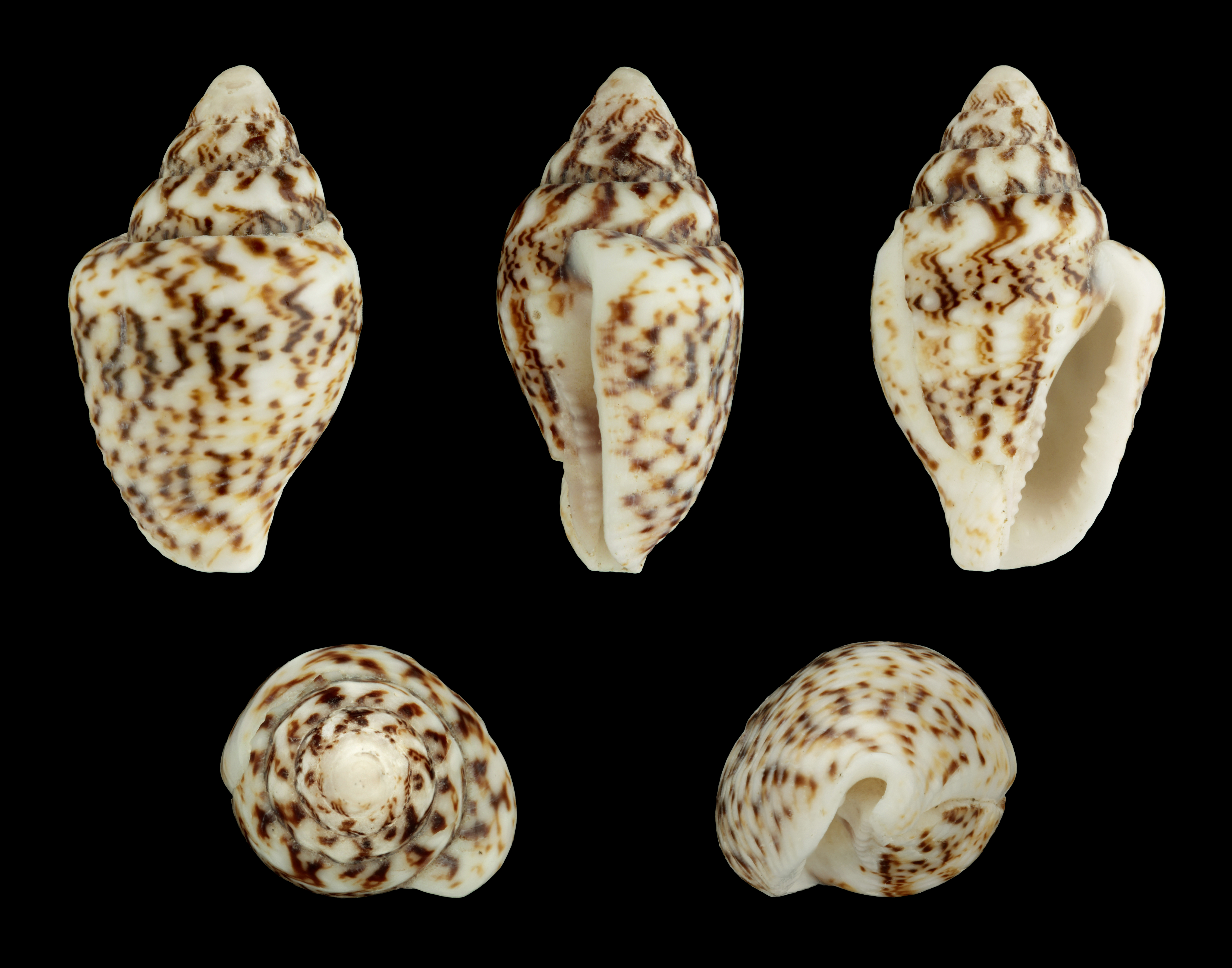 Dotted Dove Snail; Length 1.5 cm; Originating from Chan Mei Kok, Hong Kong, Peoples Republic of China; Shell of own collection, therefore not geocoded. Dorsal, lateral (right side), ventral, back, and front view.